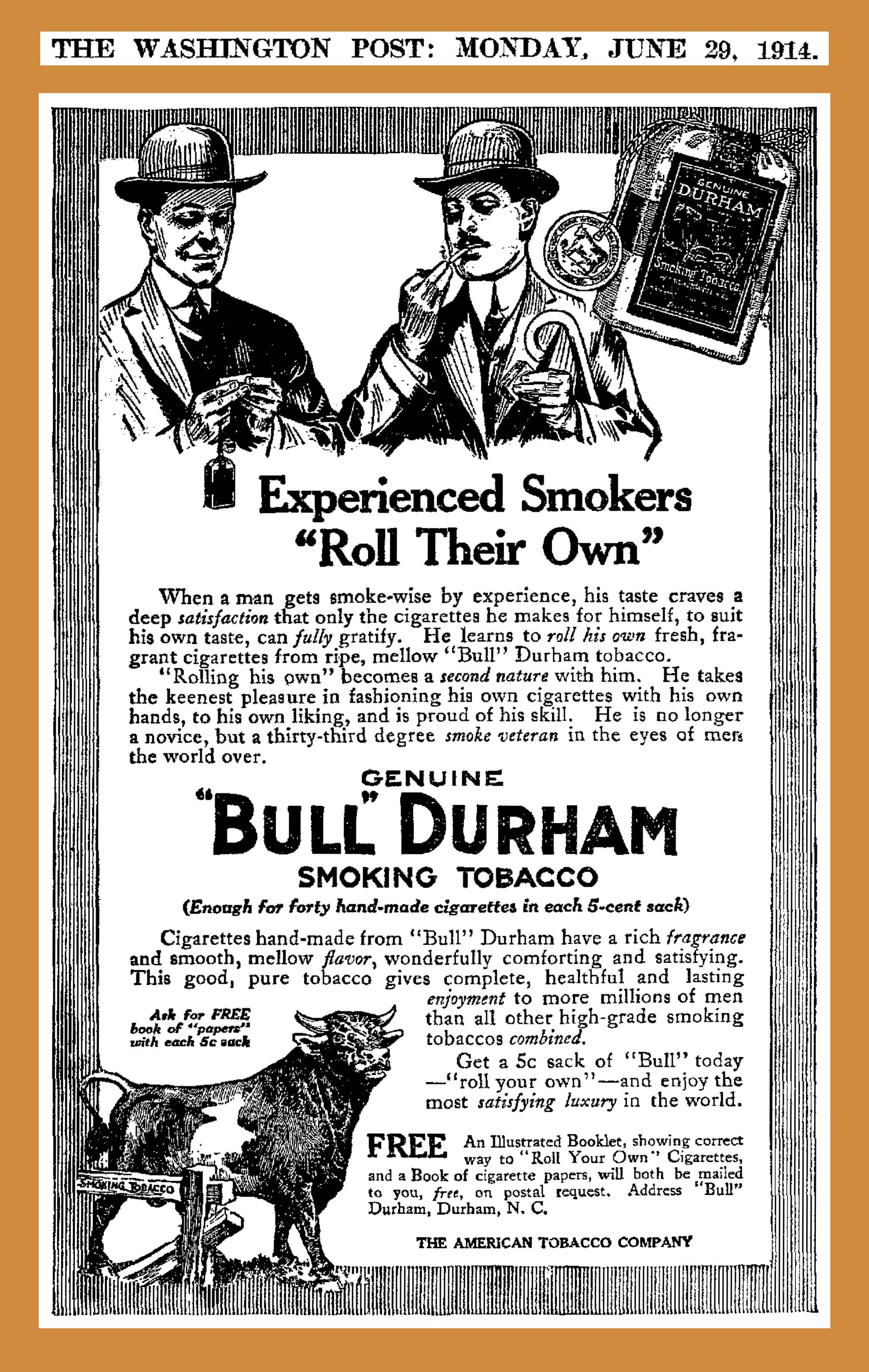 Newspaper advertisement (The Washington Post, June 29, 1914) for Bull Durham Smoking Tobacco, by American Tobacco Company.